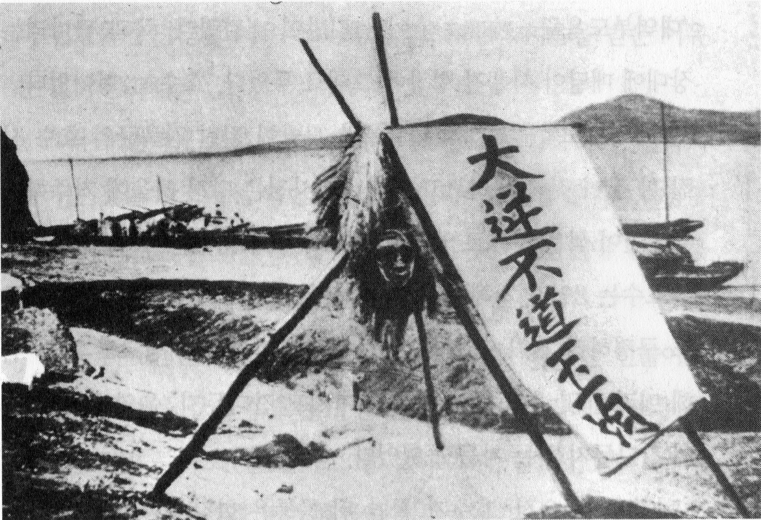 Displayed head of Kim Okgyun (1851-1894). This photo also appears in Ref. B03030202500, p 5 (Japan Center for Asian Histrical Record)